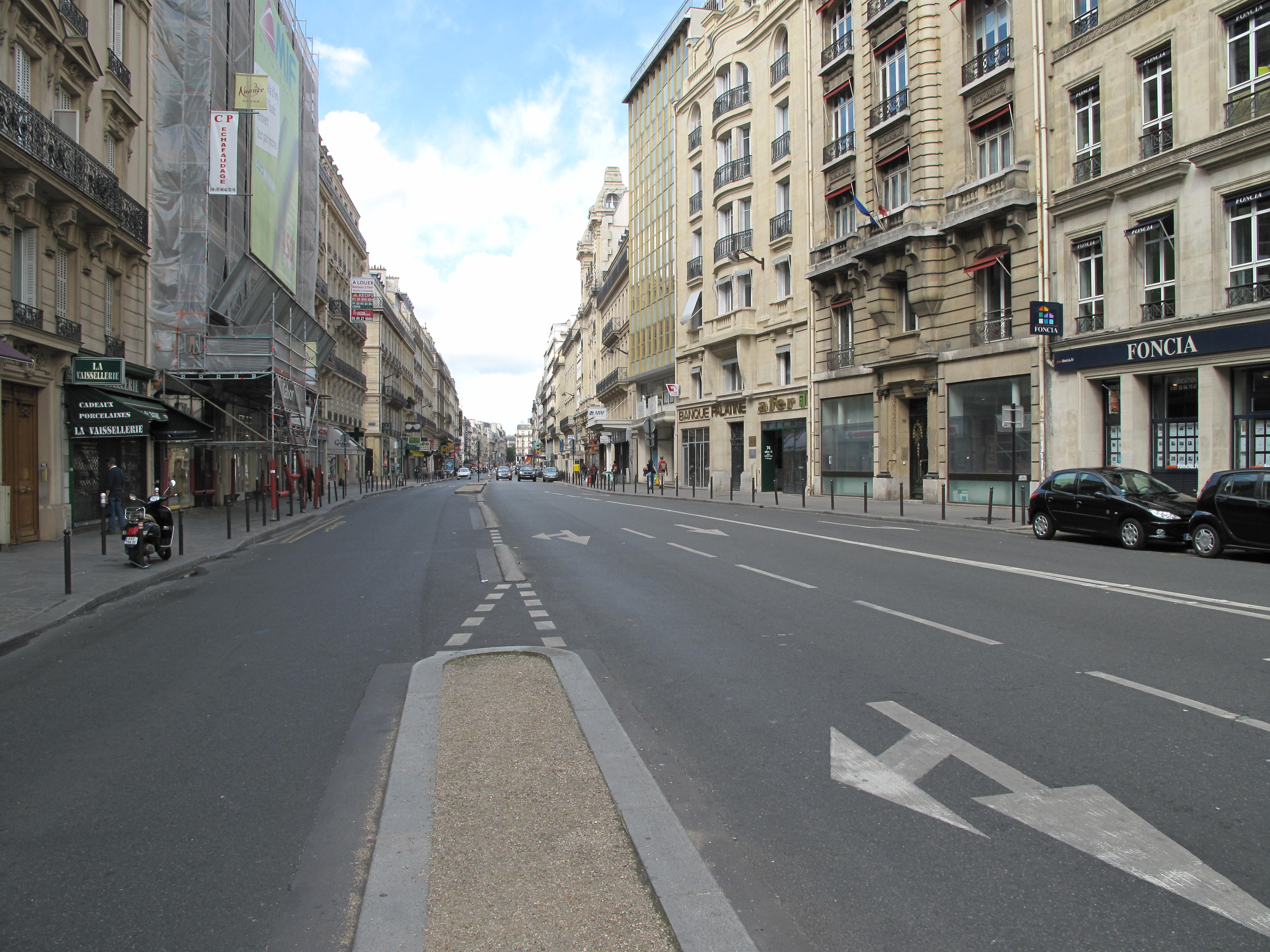 Rue Saint-Lazare, Paris. In the middle of the street, direction west.